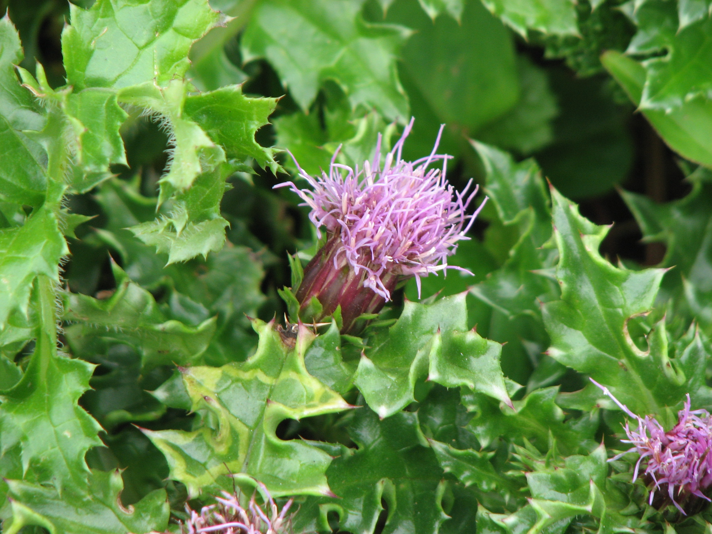 Cirsium maritimum at Hachijo is. Tokyo Japan.